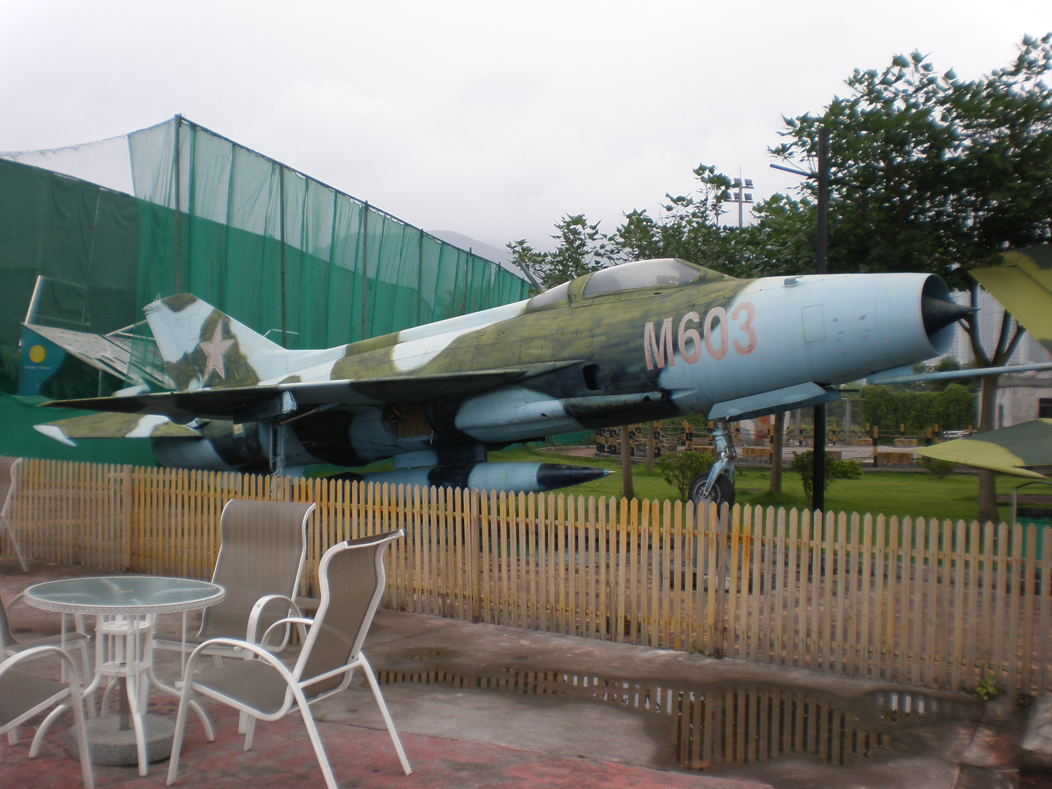 A Chengdu J-7 on display at the Minsk World theme park in Shenzhen, PRC.